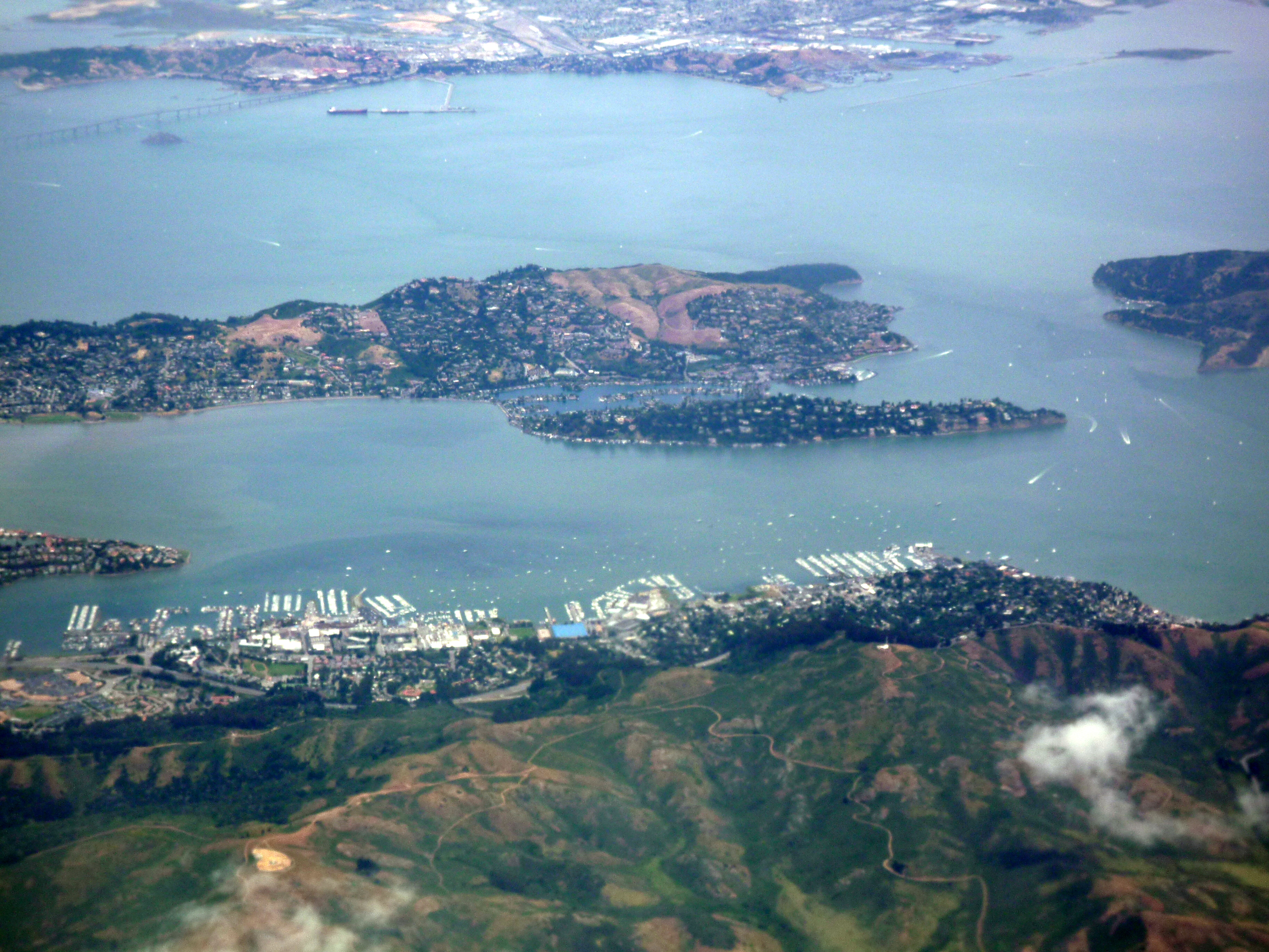 San Francisco Bay from the air in May 2010.